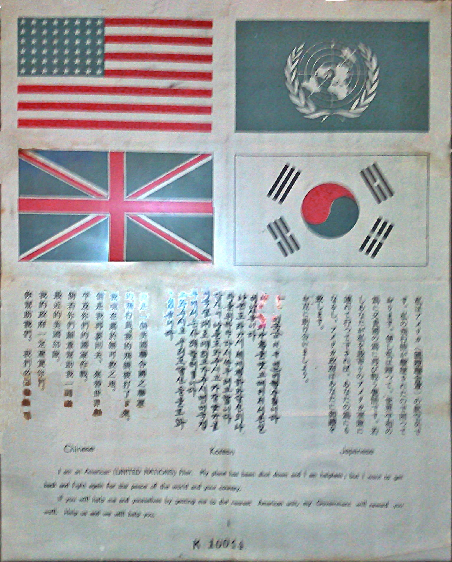 A Blood chit for UN pilots during the Korean war, with messages in English, Korean, Japanese and Chinese. Photo taken at the Australian War Memorial using a Nokia N95.